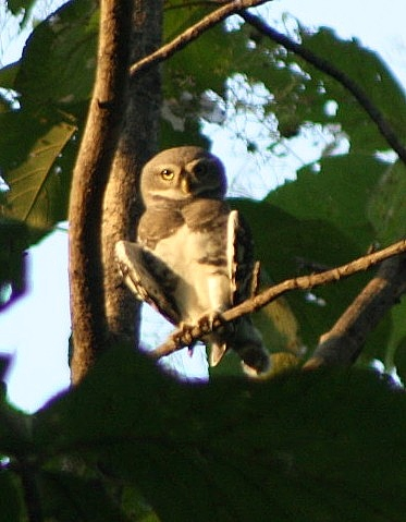 Forest Owlet Heteroglaux blewitti a Critically Endangered species. Photo taken in Melghat Tiger Reserve, Maharashtra, India.